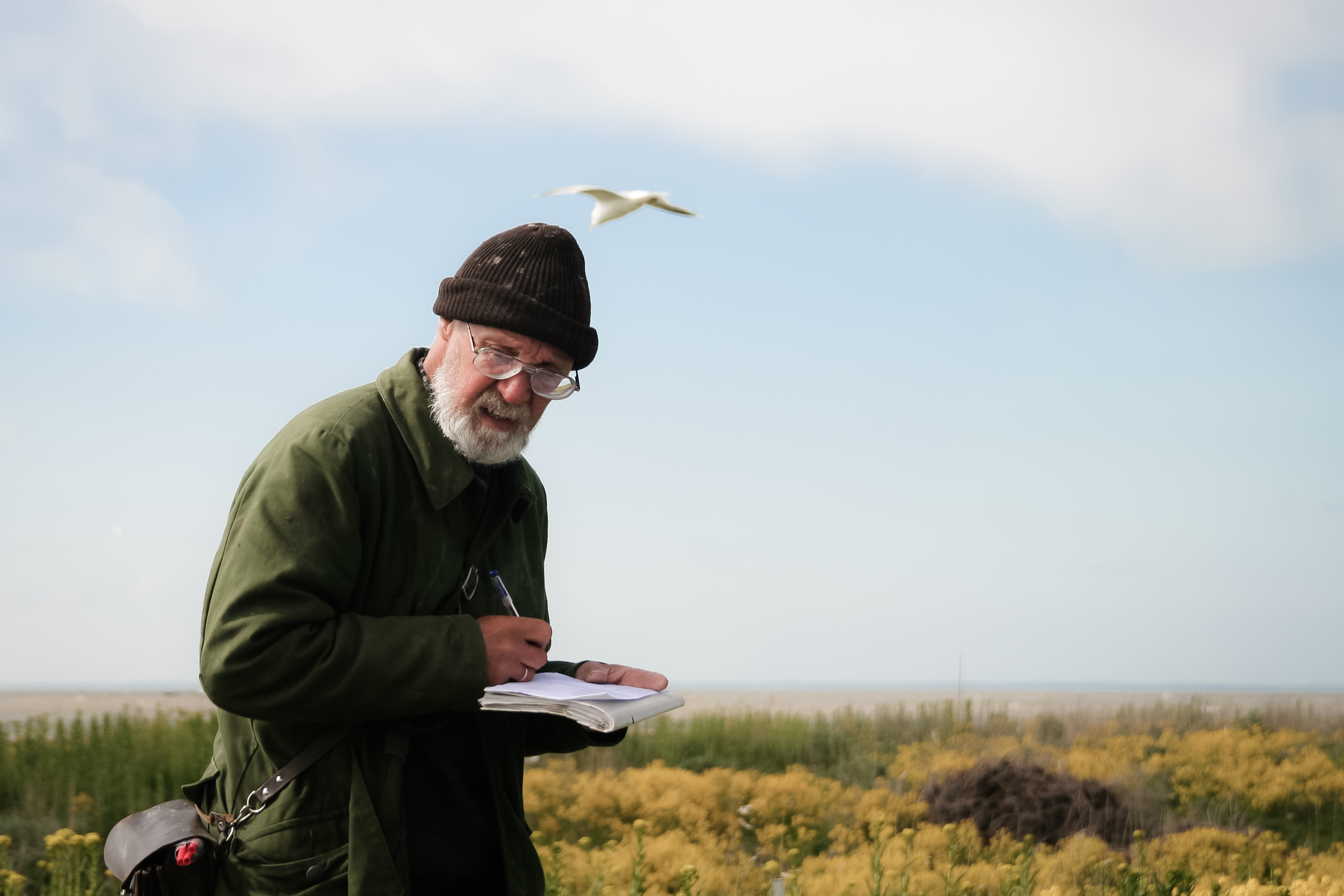 Ornithologist Kalev Rattiste, taking notes on Kakrarahu islet, at Common Gull colony.